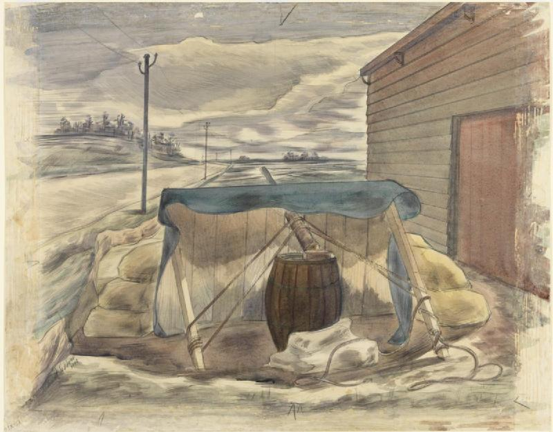 Bethune Strategy image: a view of a dummy field gun erected in Béthune in northern France to confuse and delay the advancing German forces during the Blitzkrieg of 1940. The dummy gun is made from various pieces of wood to simulate the shape of the gun, bordered by sandbags and camouflaged with green tarpaulin to create the illusion of a gun emplacement. The whole is held in place by rope. The gun faces down the length of a road and is next to a wooden barn.